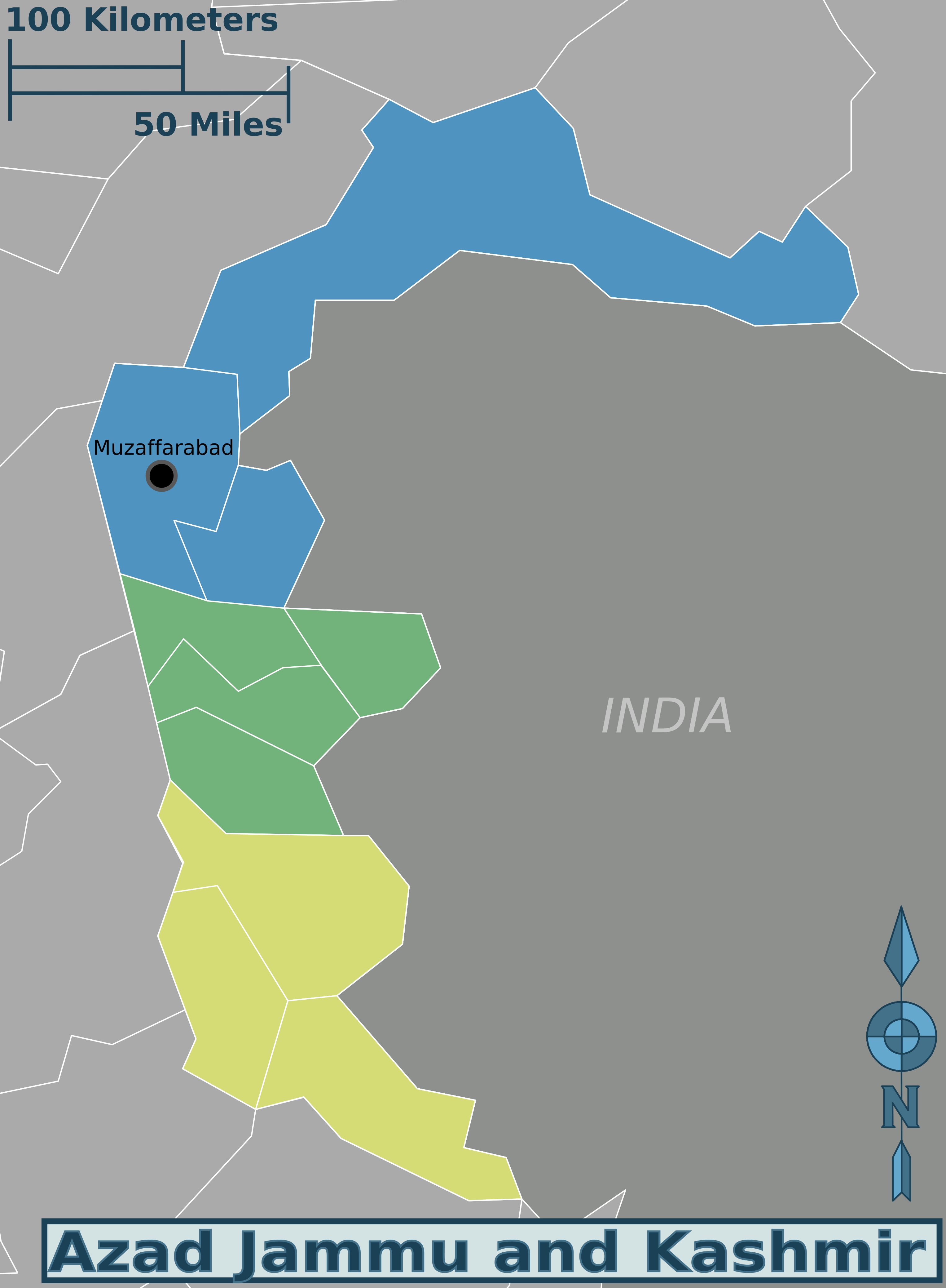 Divisions of Azad Jammu and Kashmir